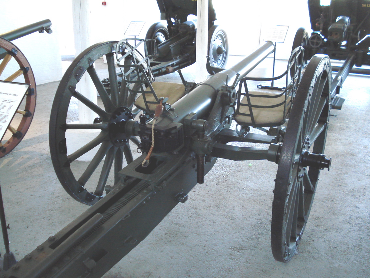 Russian Model 1900 76,2 mm field gun. This particular piece was manufactured in St. Petersburg in 1903. Photo taken on June 18, 2006. Source: Photo by me, User:Balcer.